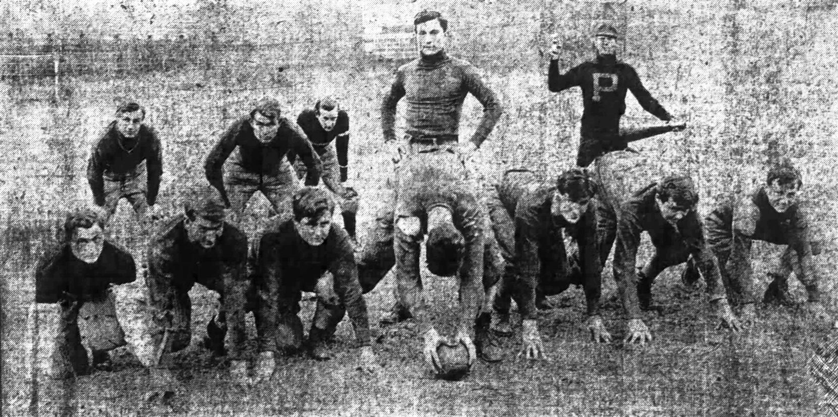 The Georgia Tech Yellow jacket football eleven early in the 1908 season. From left to right, in the backfield: Eley, Barnwell, Ridley, Robert and Coach John Heisman. On the line, Hight-Owen, Means, McPhaul, Spalding, Patterson, Green, and Ayres.